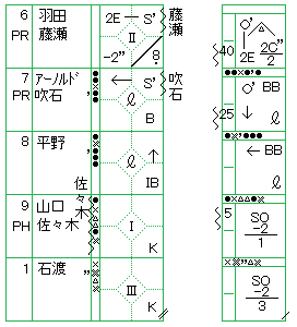 Baseball score example of "Enatsu no 21-kyu" Leftside: Waseda style Rightside: Keio style